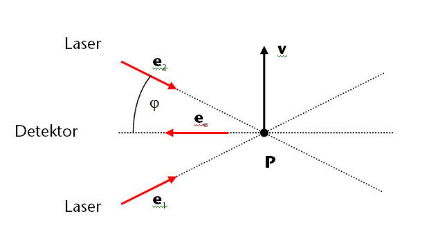 Polytec GmbH